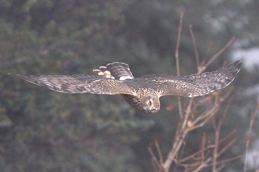 The species Hen Harrier had been photographed from Lungthu in Pangolakha Wildlife Sanctuary during GoingWild's birding and Wildlife trip at East Sikkim, India on 08.11.2015.